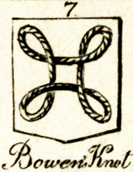 Bowen knot, as pictured in: Hugh Clark, A Short and Easy Introduction to Heraldry, London 1827, Part 2, Table 3: Bordures Counterchangings & Lines, fig. 7